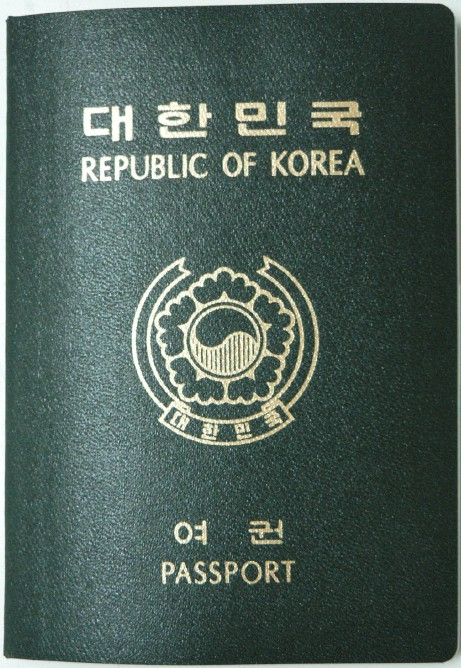 Cover of a machine-readable Republic of Korea passport.